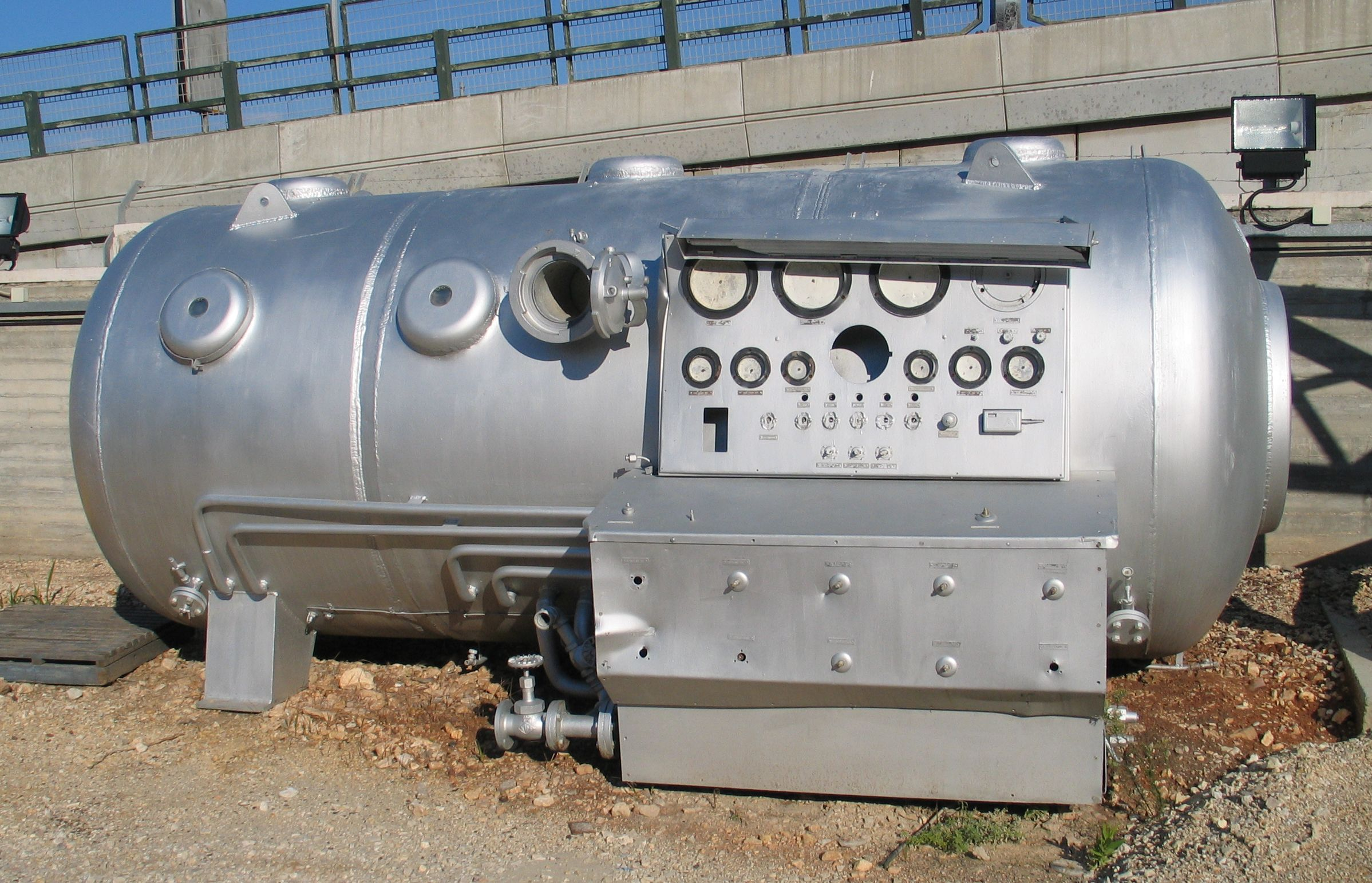 A pressure chamber in the Clandestine Immigration and Naval Museum, Haifa, Israel.